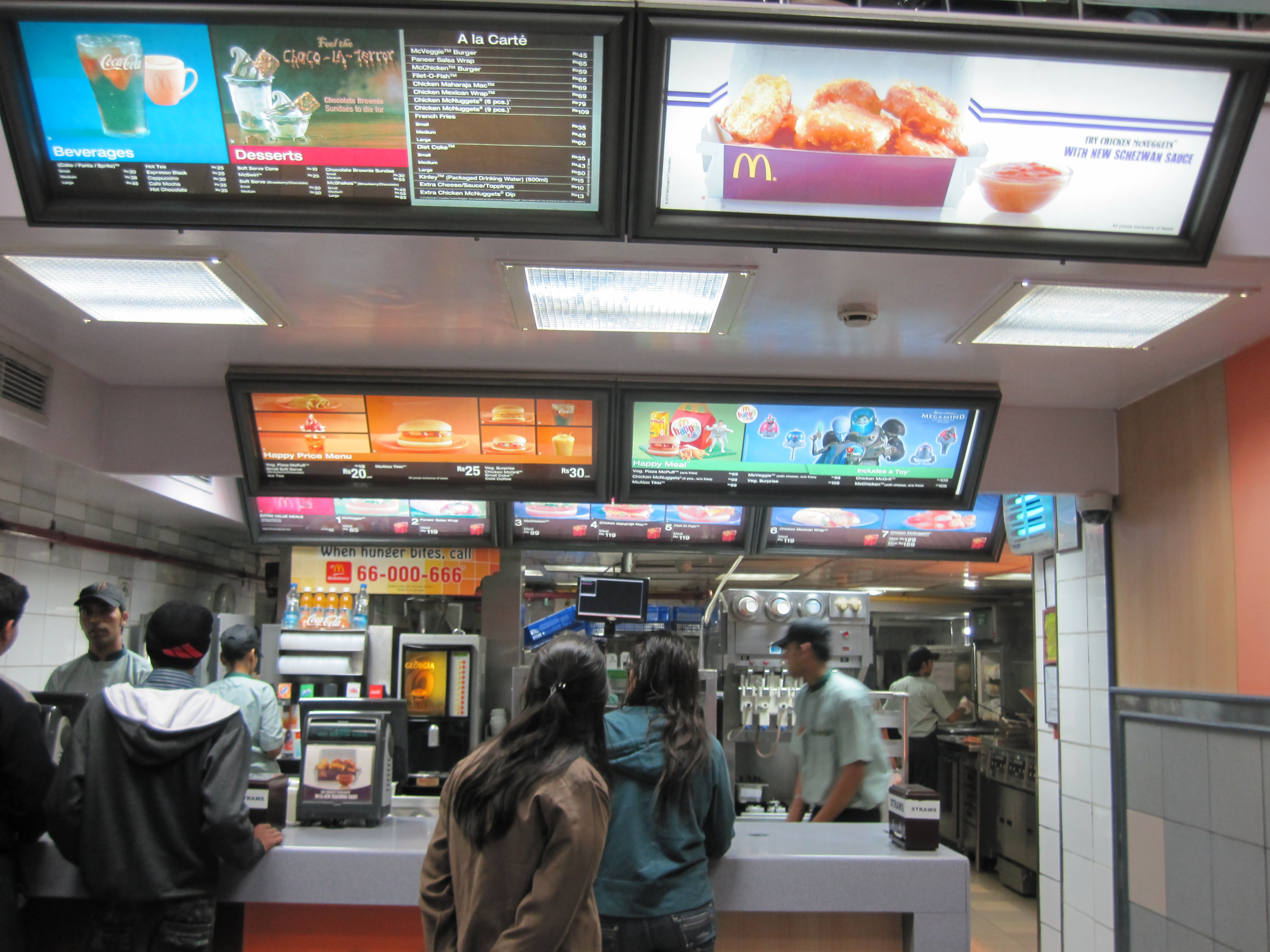 Okay. It's a McDonald's. It's breakfast time. I'm thinking Sausage McGriddle. No such luck. Maybe an egg biscuit? Nope. Okay, I'll settle for a burrito. "A what?", they ask me. Apparently, all they had was lunch. To top that, there was no beef on the menu. The sandwiches were chicken, fish and veggie. From what I could gather from my sources, it may be illegal to sell beef in India. In India, you can get some good smoke on the streets or a shot of Jack Daniels at a bar to go with your Cuban cigars and you can purchase all kinds of powders that do who-knows-what to a person at every little shop in the city, but no double cheeseburgers. Hhhhmmmmmm....